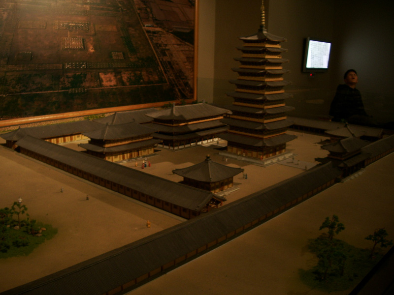 A model reconstruction of Gyeongju's greatest non-sight. This temple was constructed between 553 and 644; originally intended to be a palace, the site was changed to a Buddhist temple instead when the king saw a yellow dragon in his sleep (hence the name, "Yellow Dragon Temple" or "Imperial Dragon Temple"). The nine-story wooden pagoda was a later addition, and is thought to be the tallest pagoda ever built in Korea, standing probably about 68 meters high. Sadly, the temple was destroyed in 1238 during the Mongolian invasions, and never rebuilt. Excavations of the site started in 1976 and are still ongoing# The temple site is located just southeast of the National Museum.